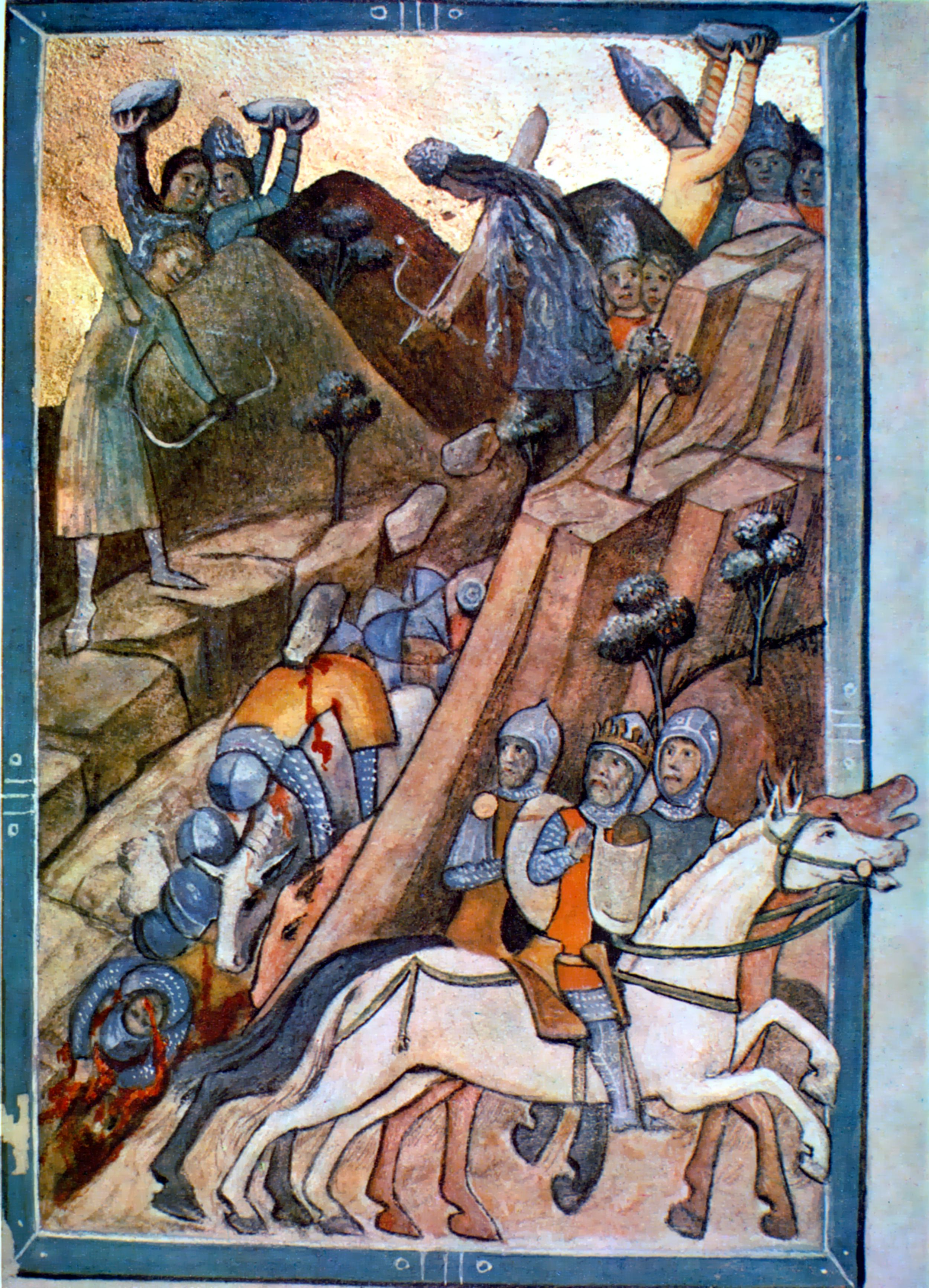 The Battle of Posada (November 9-12, 1330) in the Chronicon Pictum. The Basarab I of Wallachia's army ambushed Charles Robert of Anjou, king of Hungary and his 30,000-strong invading army. The Vlach (Romanian) warriors rolled down rocks over the cliff edges in a place where the Hungarian mounted knights could not escape from them nor climb the heights to dislodge the attackers.